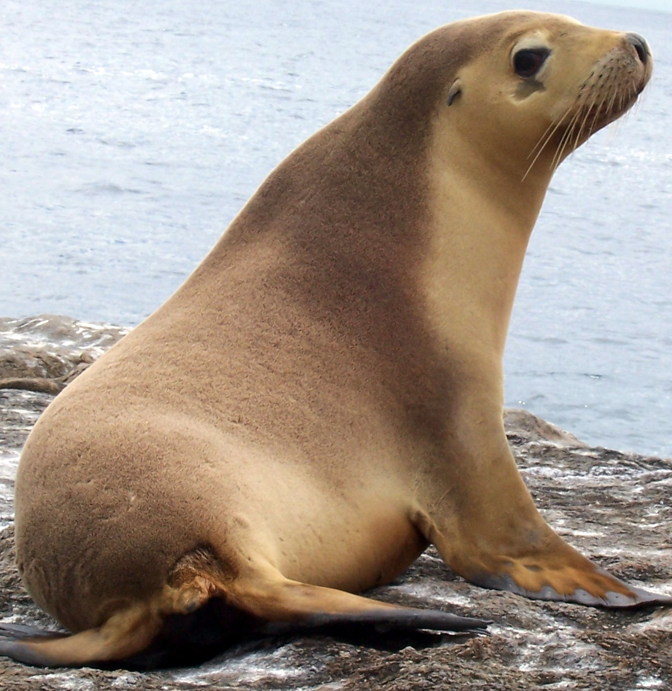 Australian Sea Lion on North Neptune Island preserve southwest of Adelaide.